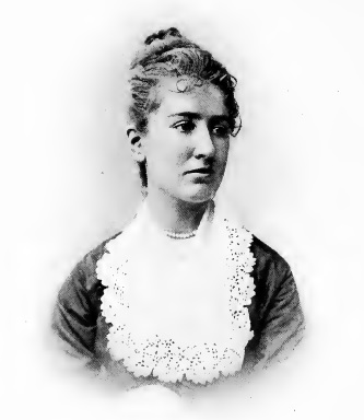 Picture of Caroline Phelps Stokes (1854-1909).